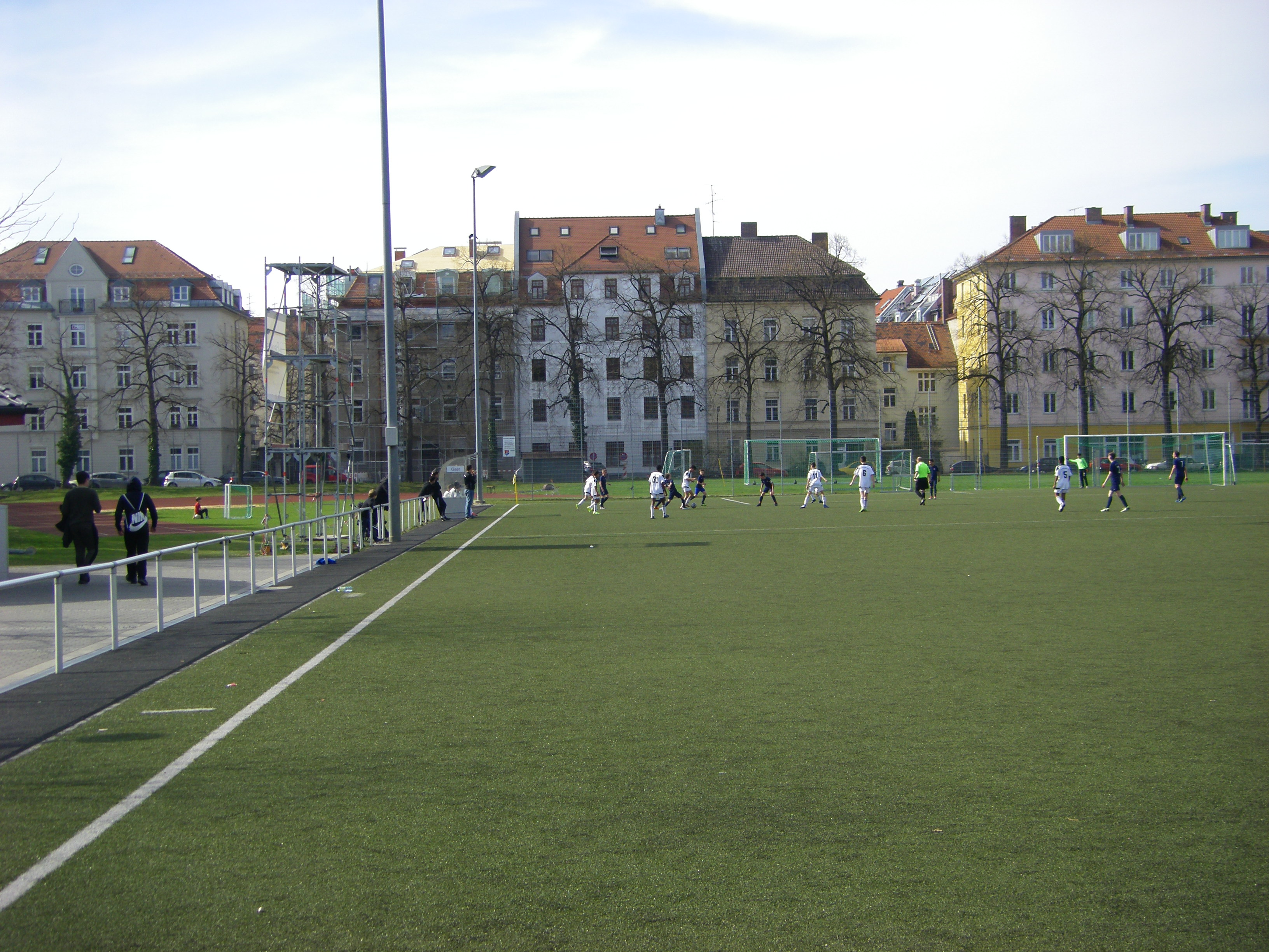 The street in the background is Zugspitzstraße in Munich-Giesing and the white mansion in the middle is number 6 where Franz Beckenbauer grew up.